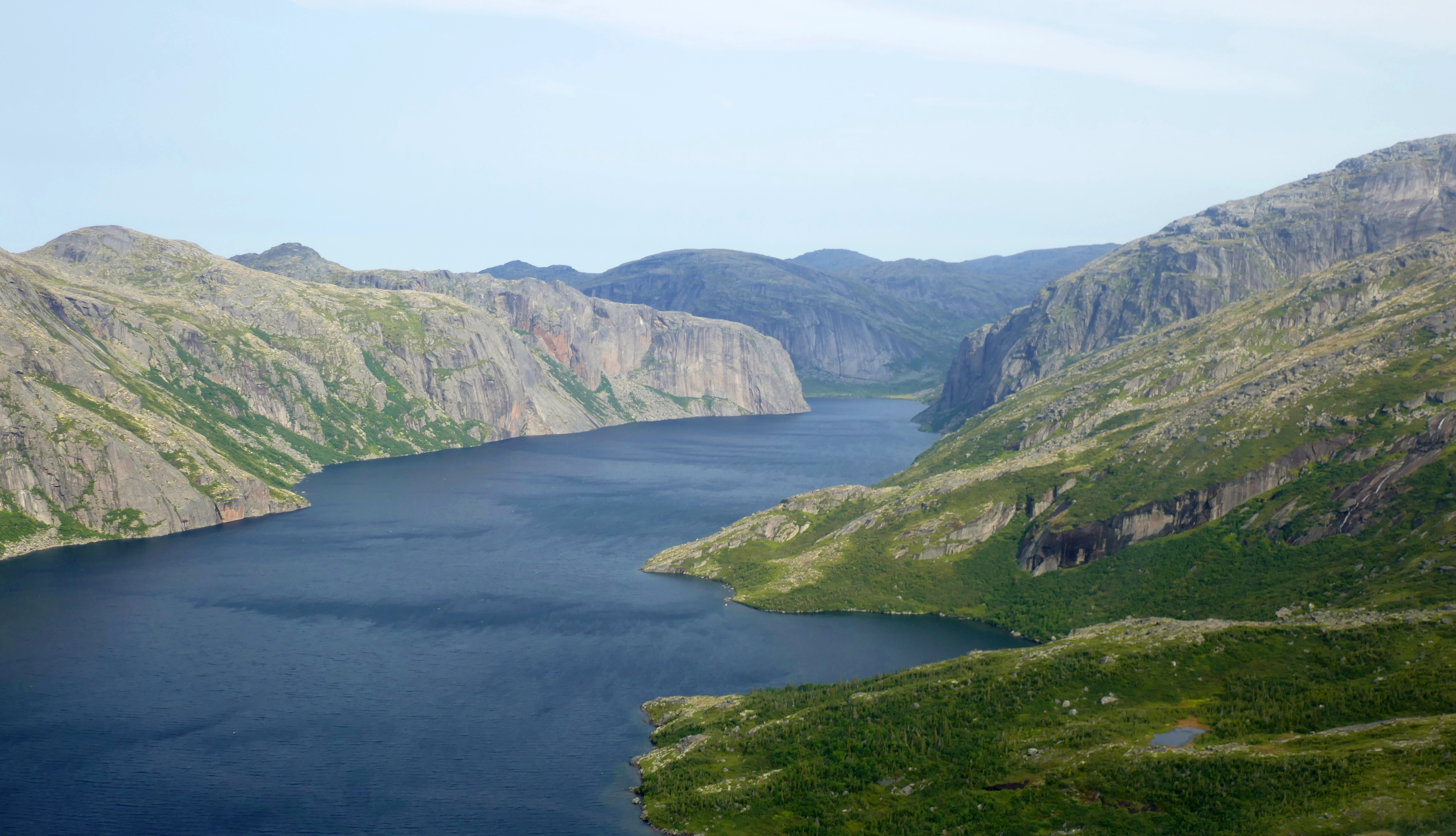 Flying over Gods Pocket in the Mealy Mountains National Park Reserve